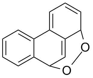 The structure of 1,9-dihydro-1,9-epidioxyphenanthrene